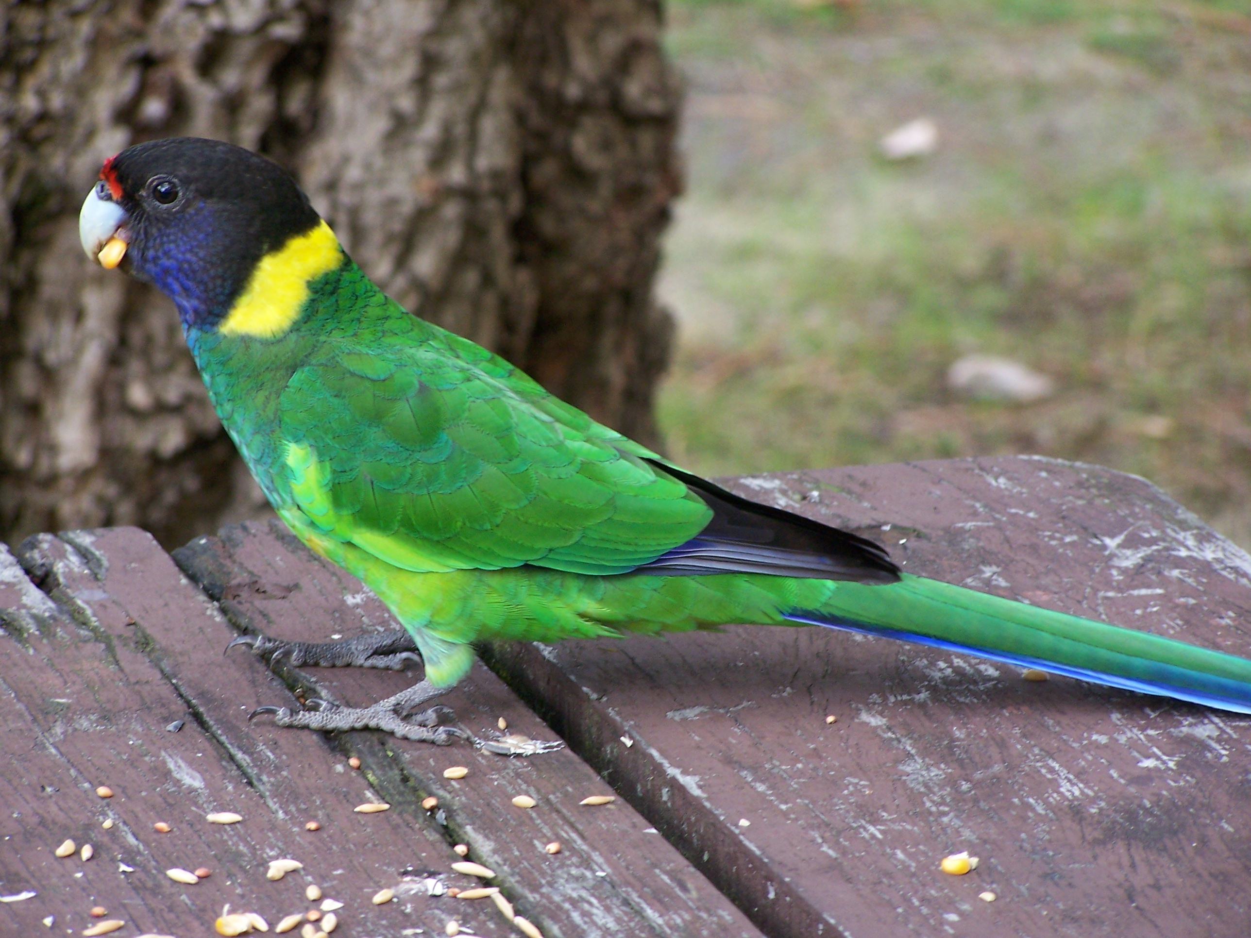 An Australian Ringneck in Gnangara, Western Australia, Australia. This subspecies is also called the Twenty-eight Parrot.